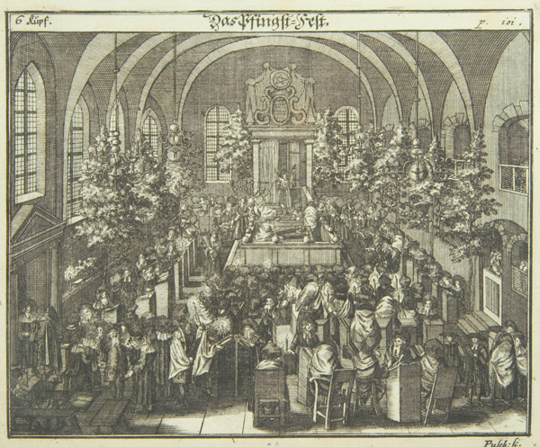 Illustration from Juedisches Ceremoniel, a German book published in Nürnberg in 1724 by Peter Conrad Monath. The book is a beautifully illustrated description of Jewish religious ceremonies, rites of passage and feast days, which first appeared in 1716, here in its second edition of 1724. The extremely detailed plates, by Georg Puschner, depict priestly robes, the celebrations of the New Year, Passover, the weekly Sabbath, circumcision, presentation of the first born, prayer at the synagogue, a wedding procession and a wedding, purification of the bride, the washing of the brother-in-law's feet, the feast of reconciliation, death rites, burials, as well as the procedures for other Jewish customs.